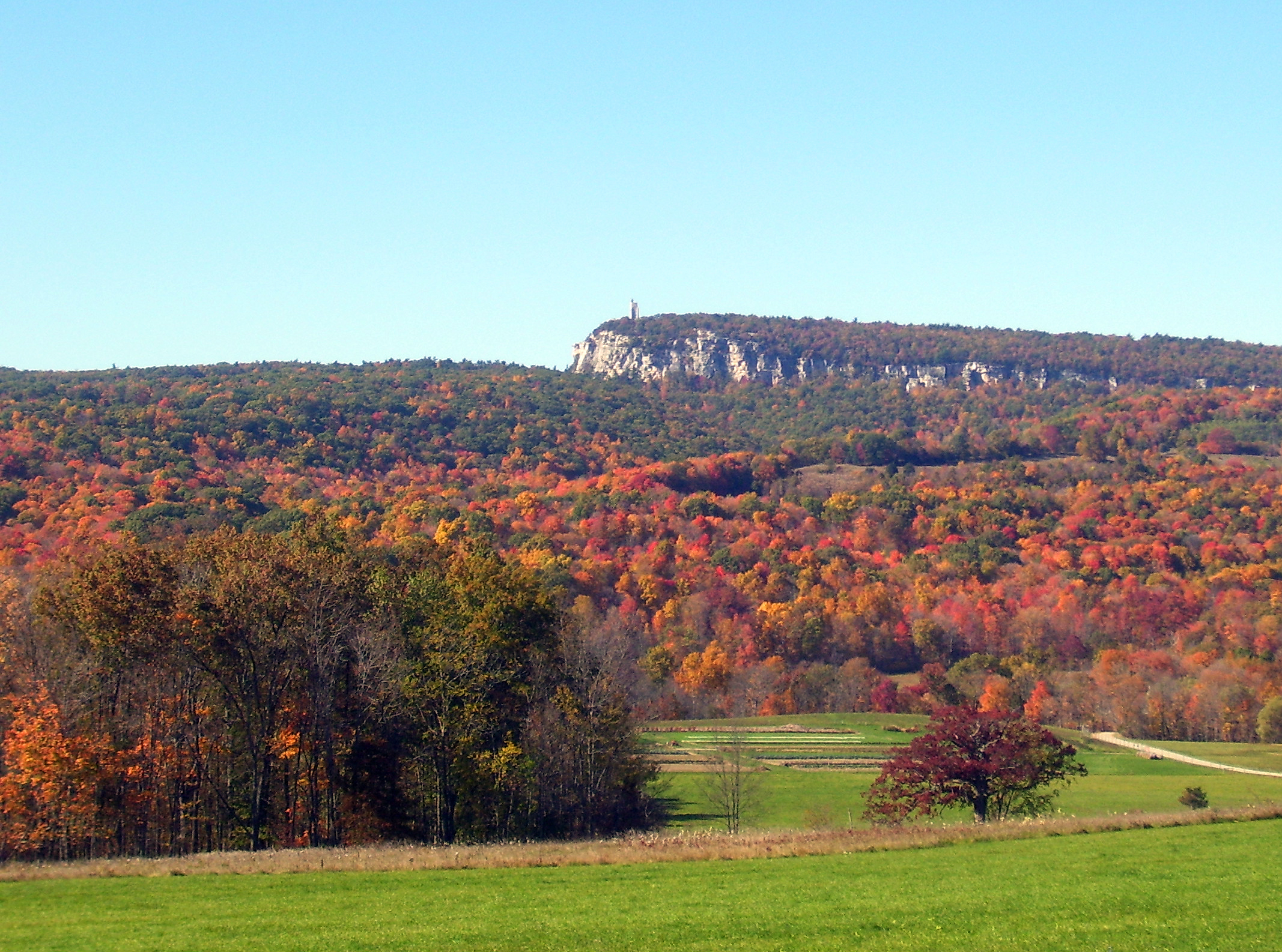 View of Skytop tower at Mohonk Mountain House from east, New Paltz, NY, USA